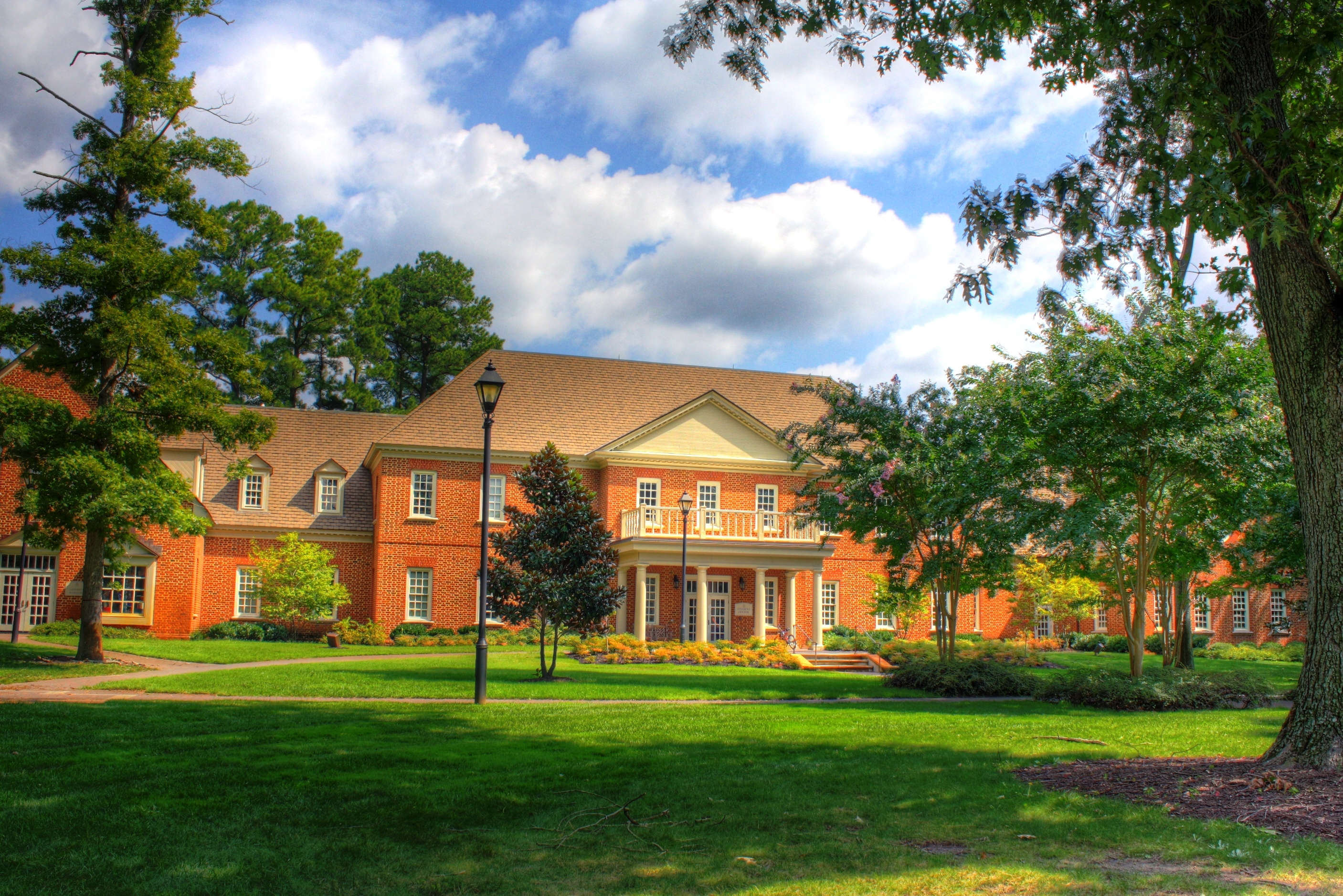 The Regent University Student Center, containing the Regent Ordinary (dining commons) and various administrative offices.